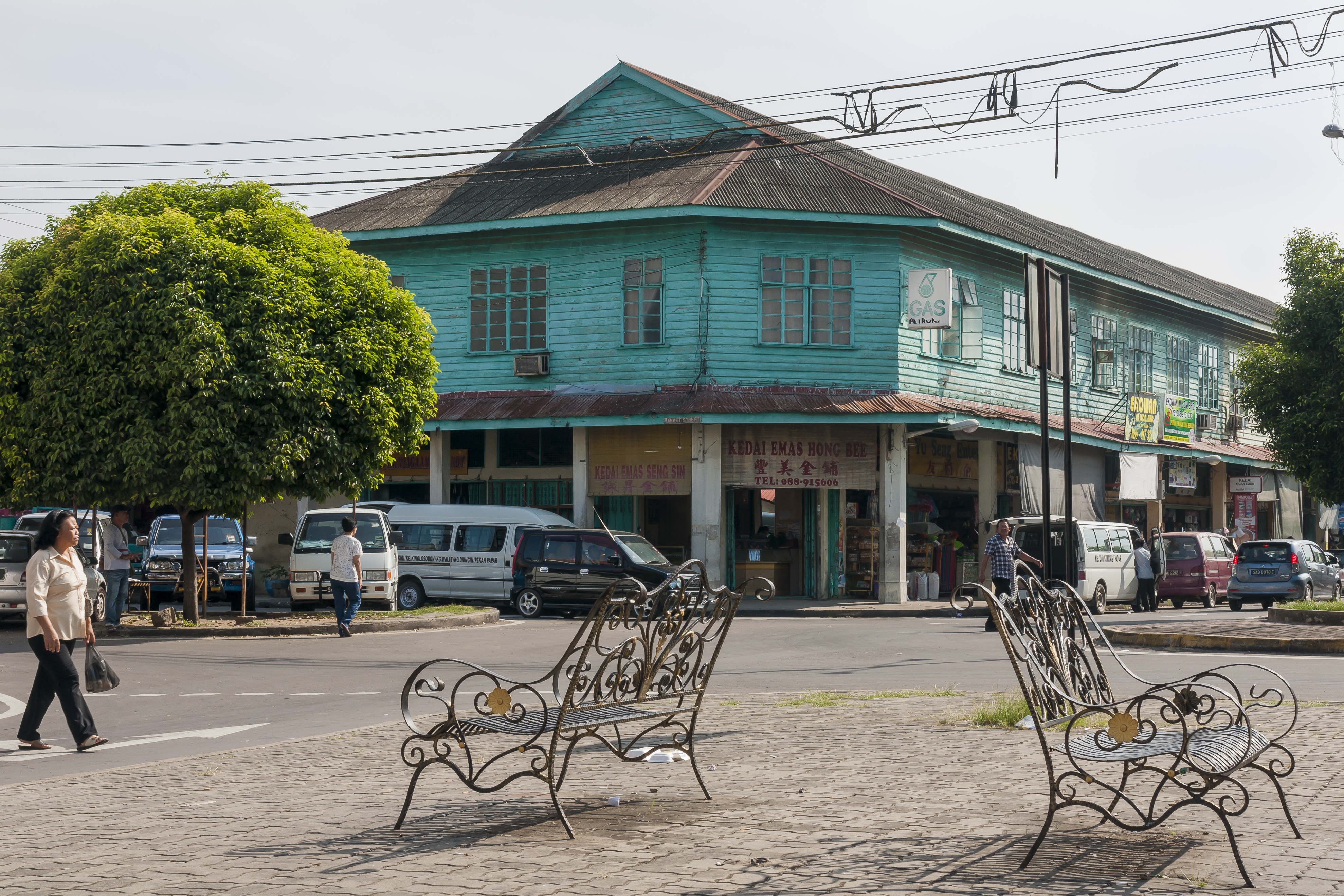 Papar (Sabah), Old shophouse in Papar ("Papar 7 Shoplot")